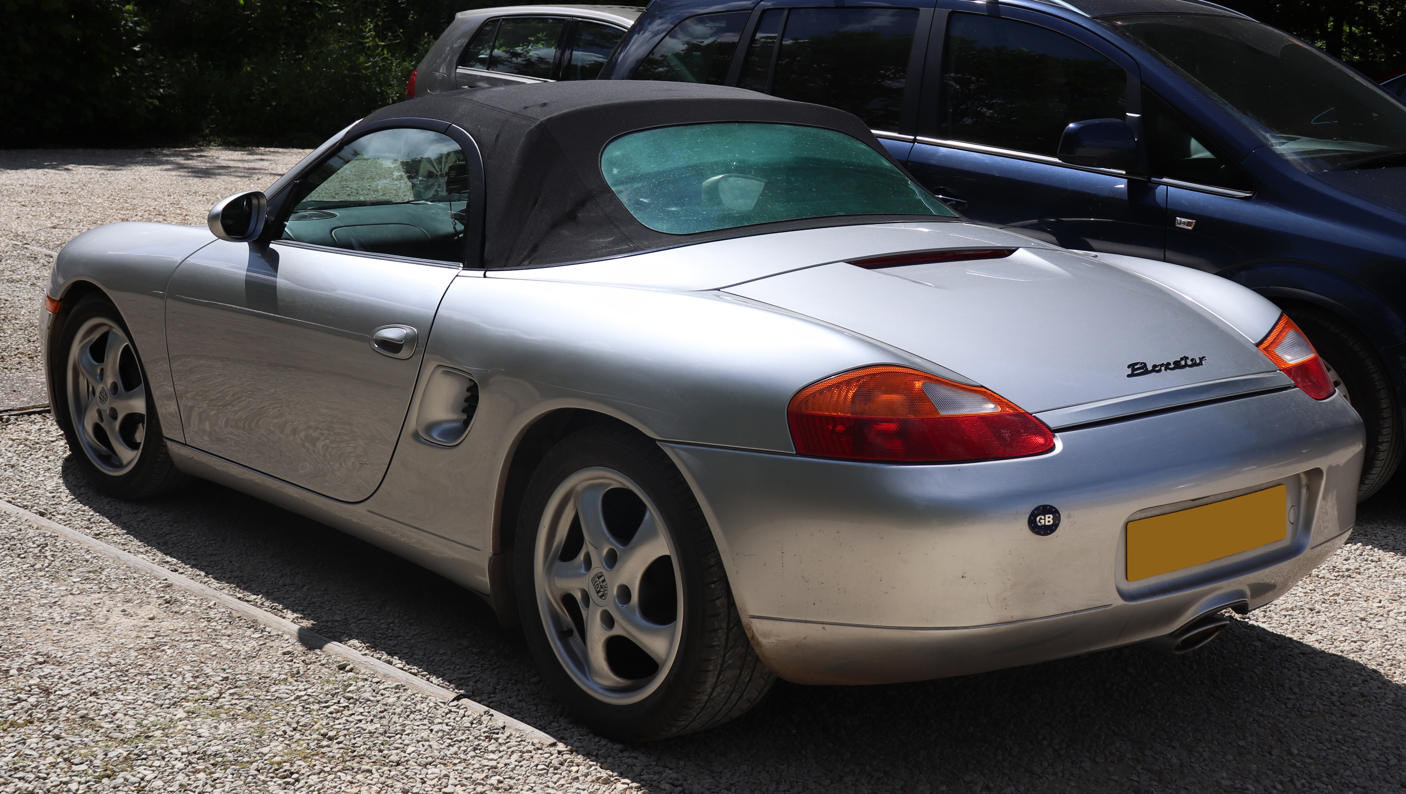 1999 Porsche Boxster 2.5 Rear Taken at Snowshill Manor, Snowshill